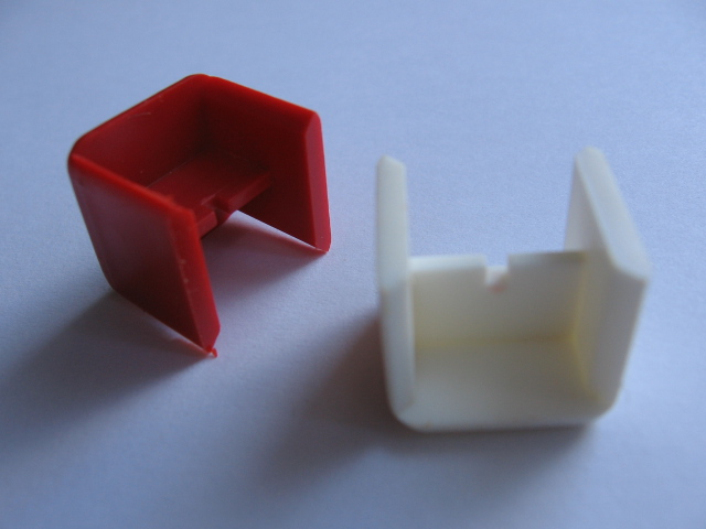 A small cube of the Minus Cube puzzle in disassembled state. A photo is taken by User:Cmapm.